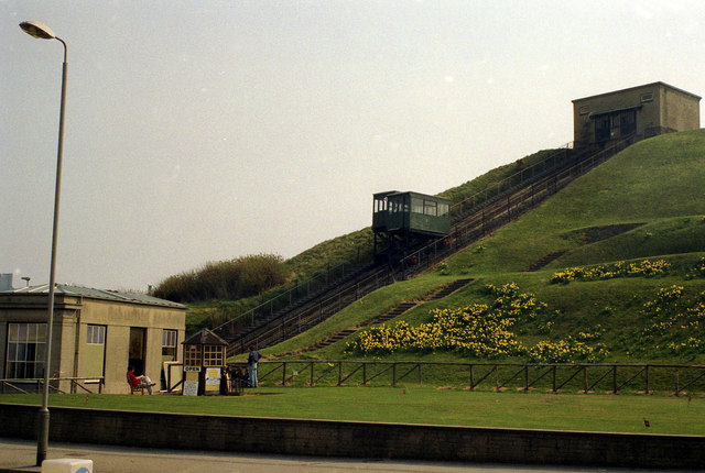 North Bay Cliff Lift, Scarborough. See 785322.